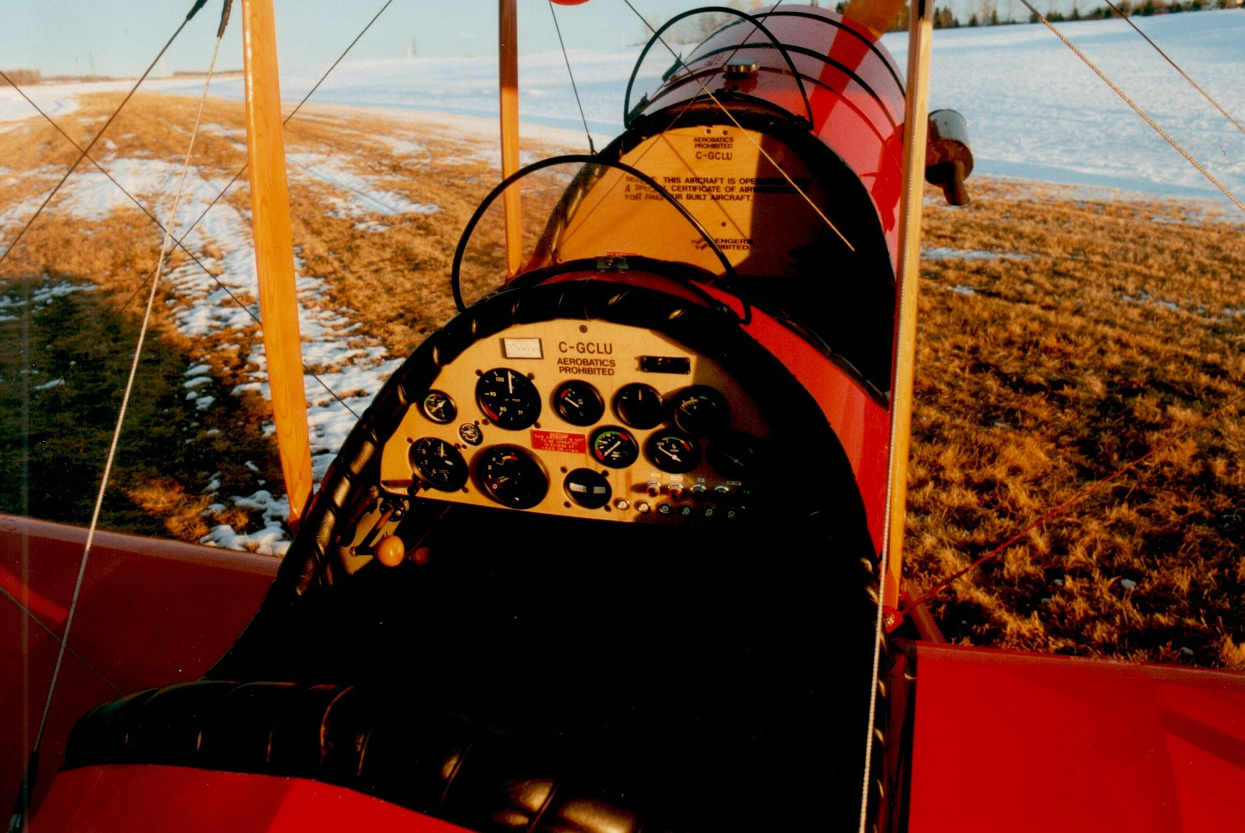 The instrument panel of an Early Bird Jenny homebuilt aircraft